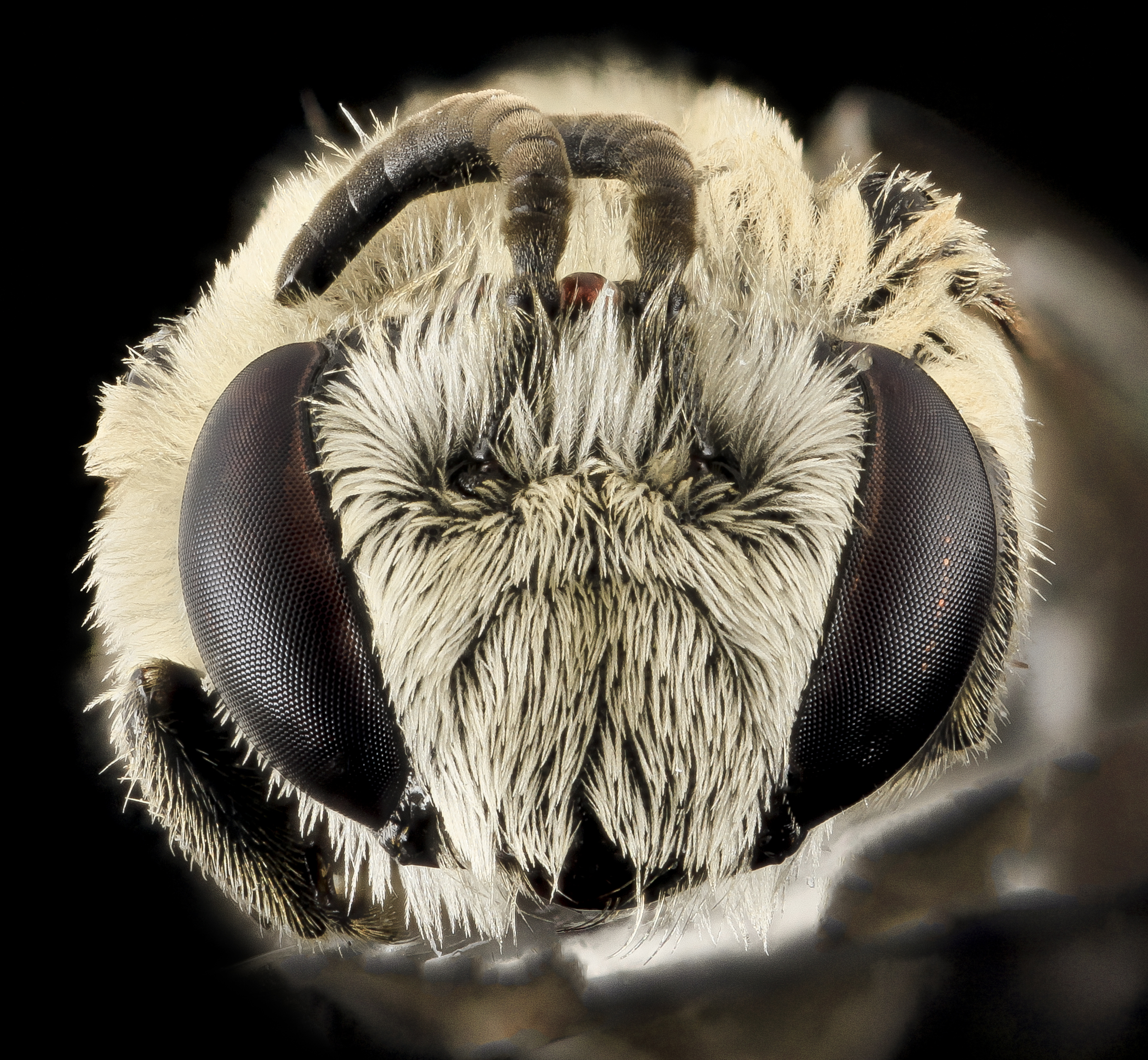 Rarity here. This is species was described in the 1950s, named after the town it was collected near and only a handful of specimens have ever been collected that I am aware of. In fact it is so rare that it was on our list of "missing" species, published in 2011. So it is nice to see this species and, indeed, it was collected at Cape Canaveral National Seashore, whose nearest town is.....Titusville. Picture taken by Wayne Boo Canon Mark II 5D, Zerene Stacker, 65mm Canon MP-E 1-5X macro lens, Twin Macro Flash, F5.0, ISO 100, Shutter Speed 200